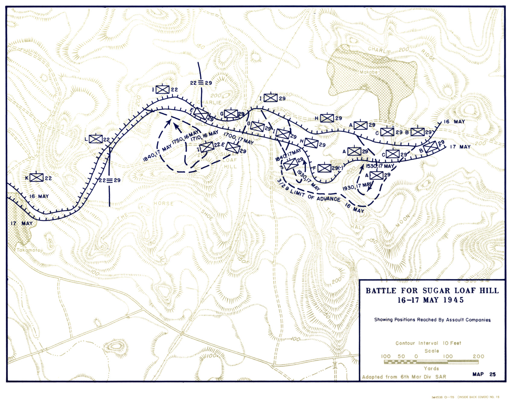 Map of the Battle for Sugar Loaf Hill. 16-17 May 1945